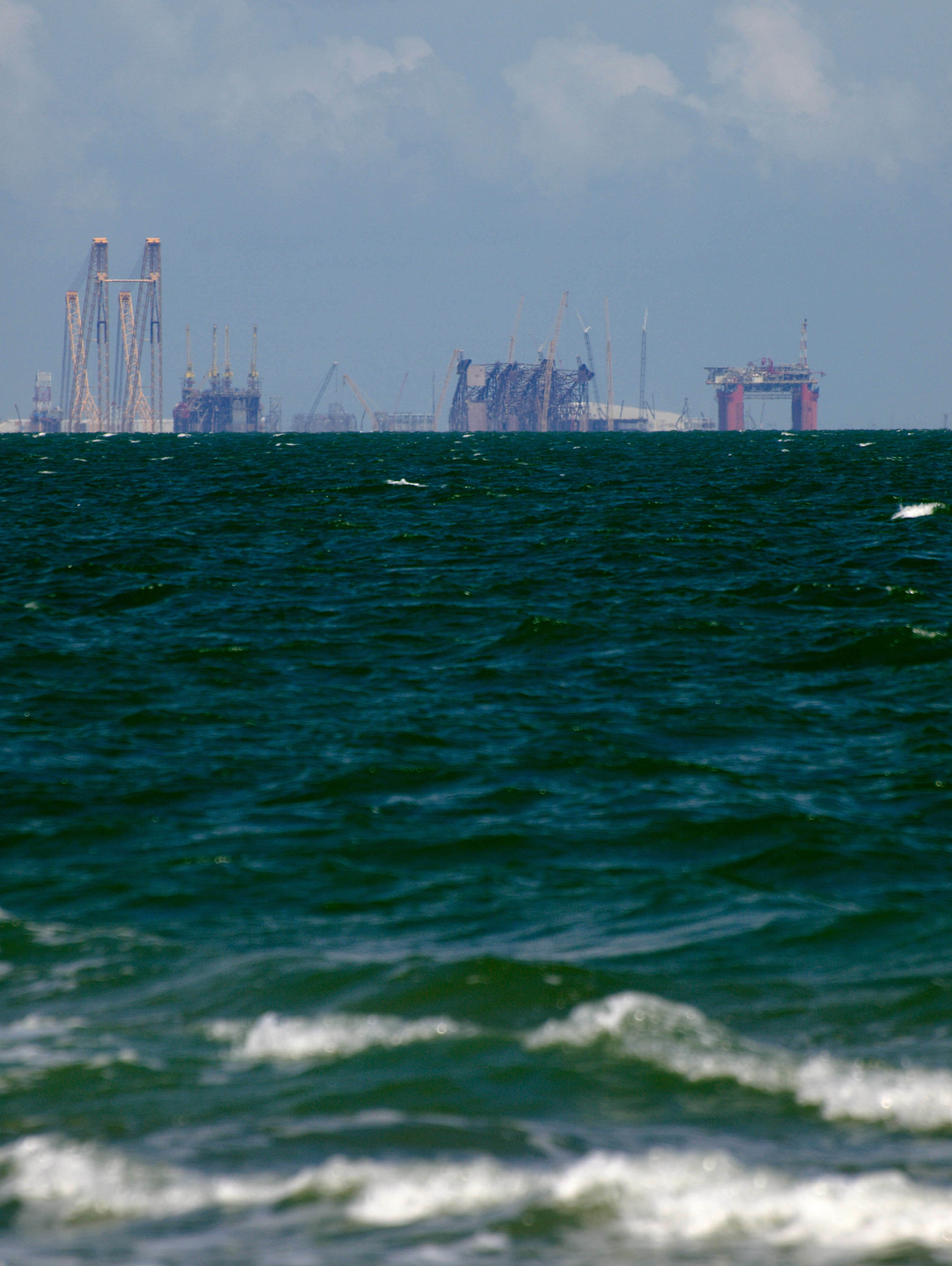 Mapped from where taken. The view is about 10 miles across Corpus Christi Bay, towards Ingleside.